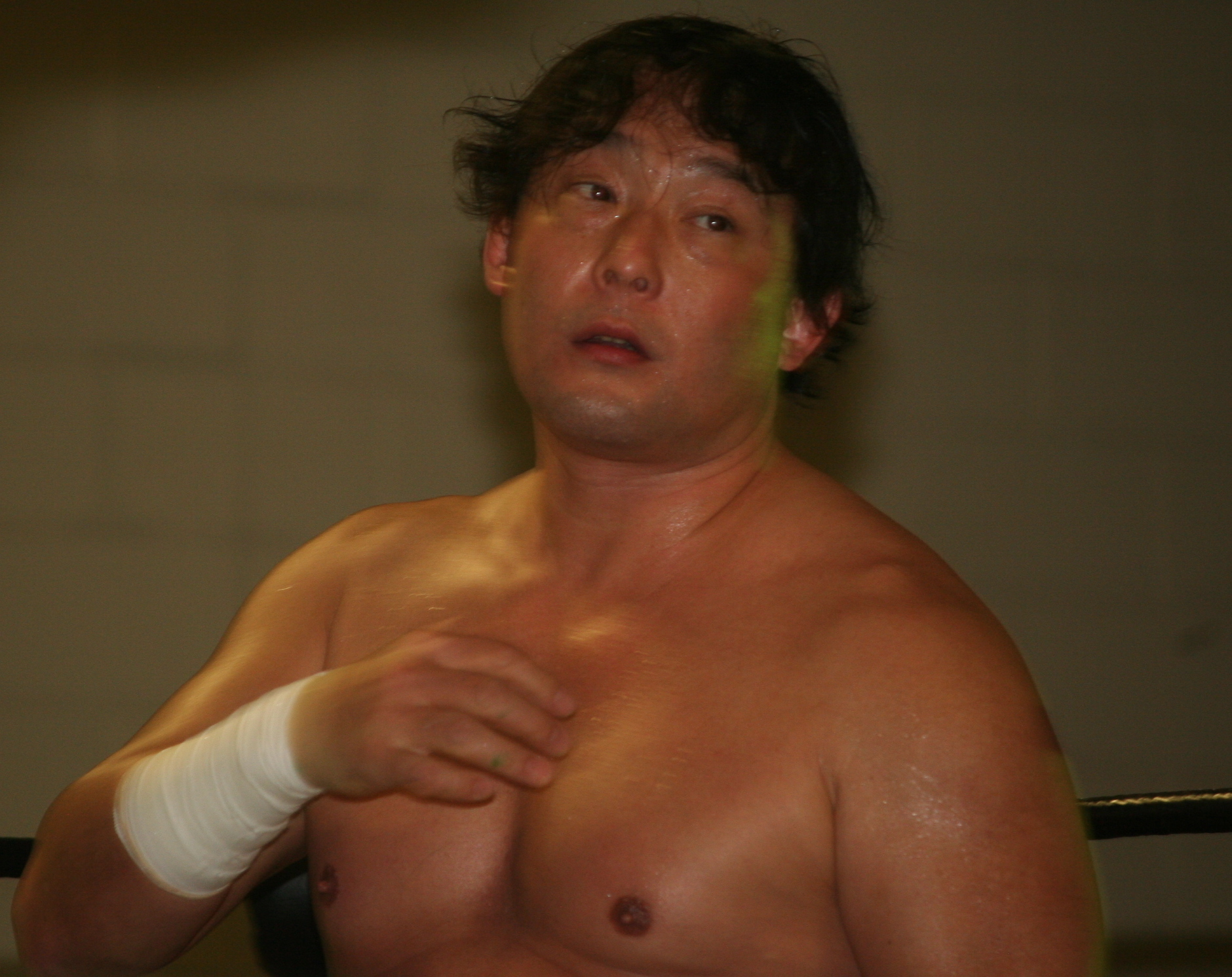 Professional wrestler Tajiri in March 2018